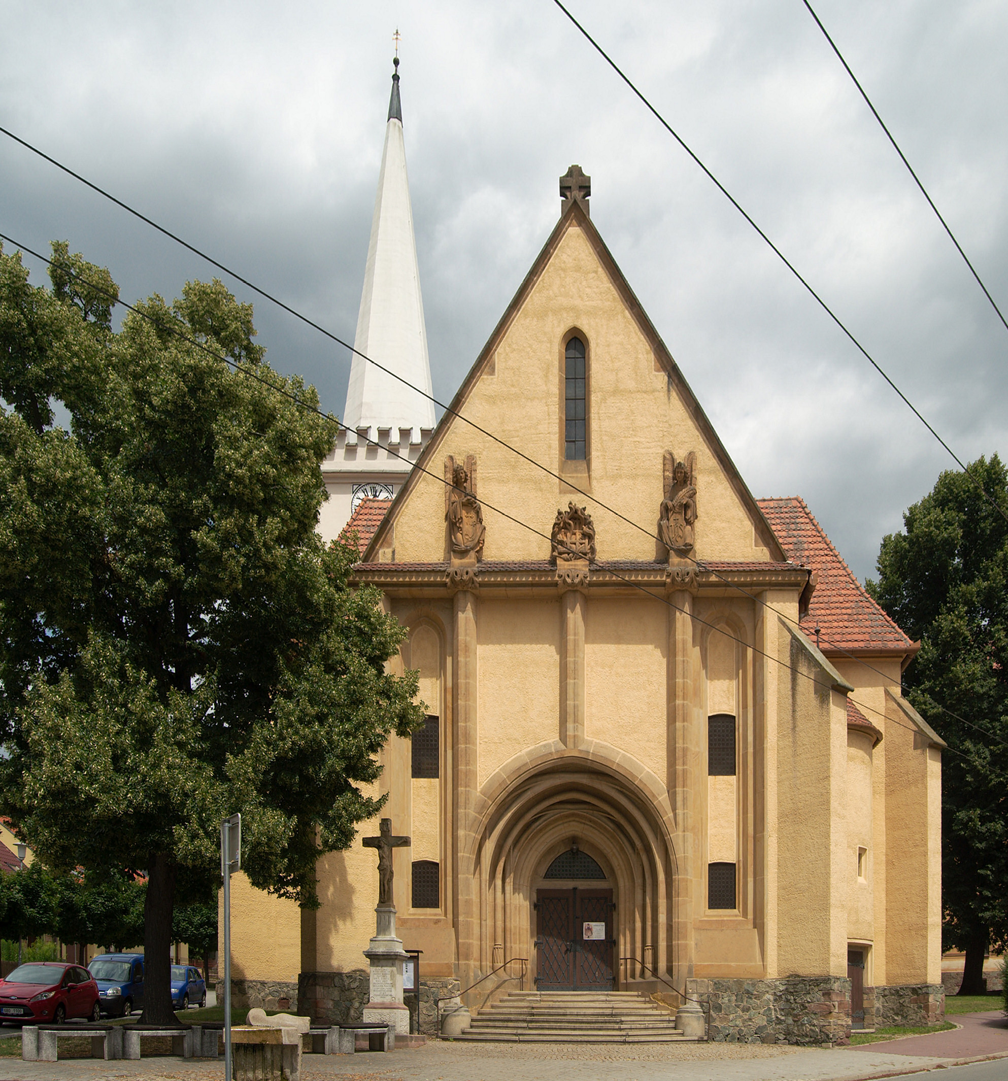 Brno-Komín - Church of Saint Lawrence